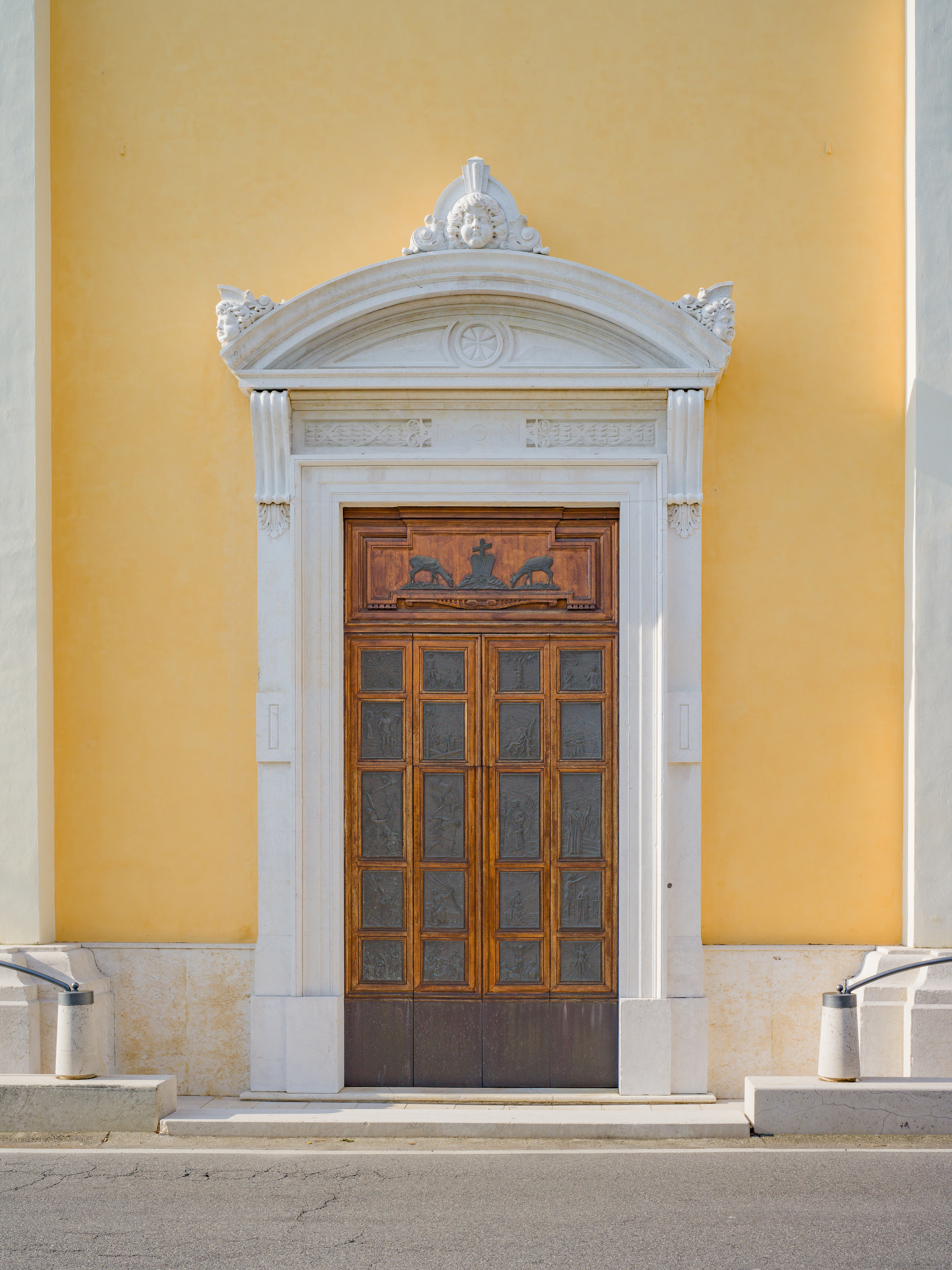 Chiesa dei Santi Pietro e Paolo church in Brescia.